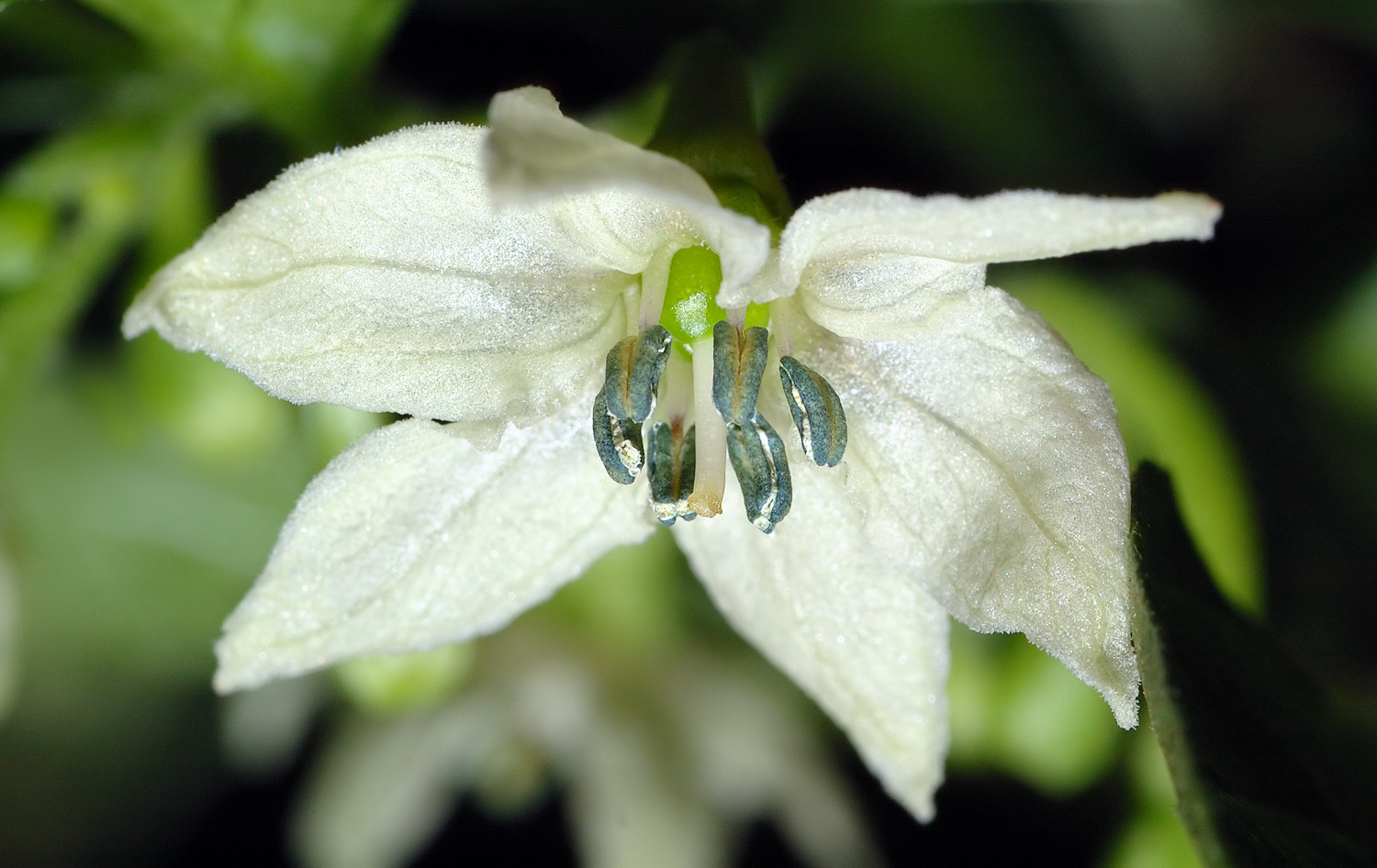 This image shows a Habanero chile flower (Capsicum chinense).